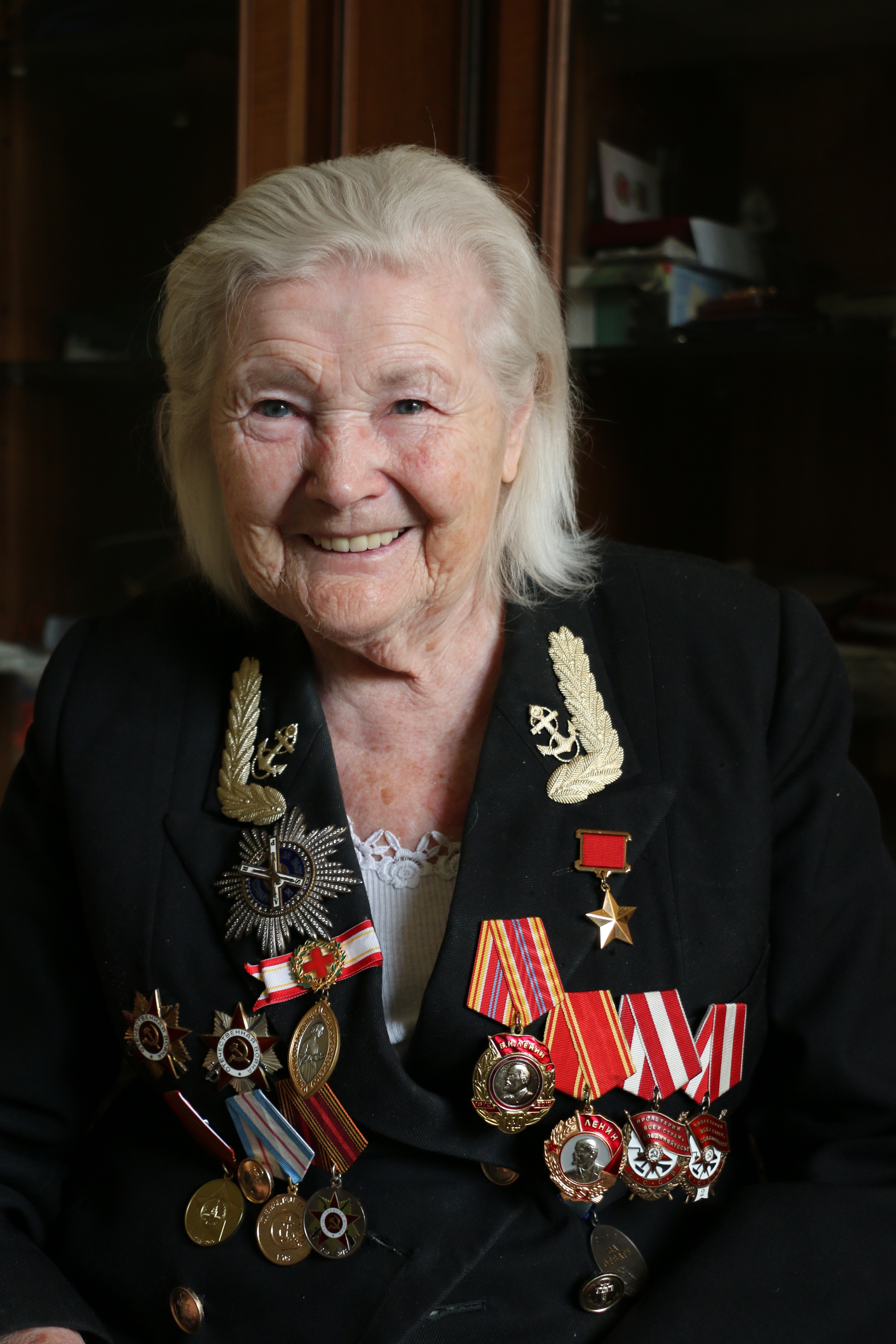 Ekaterina Illarionovna Demina at her home, June 2016